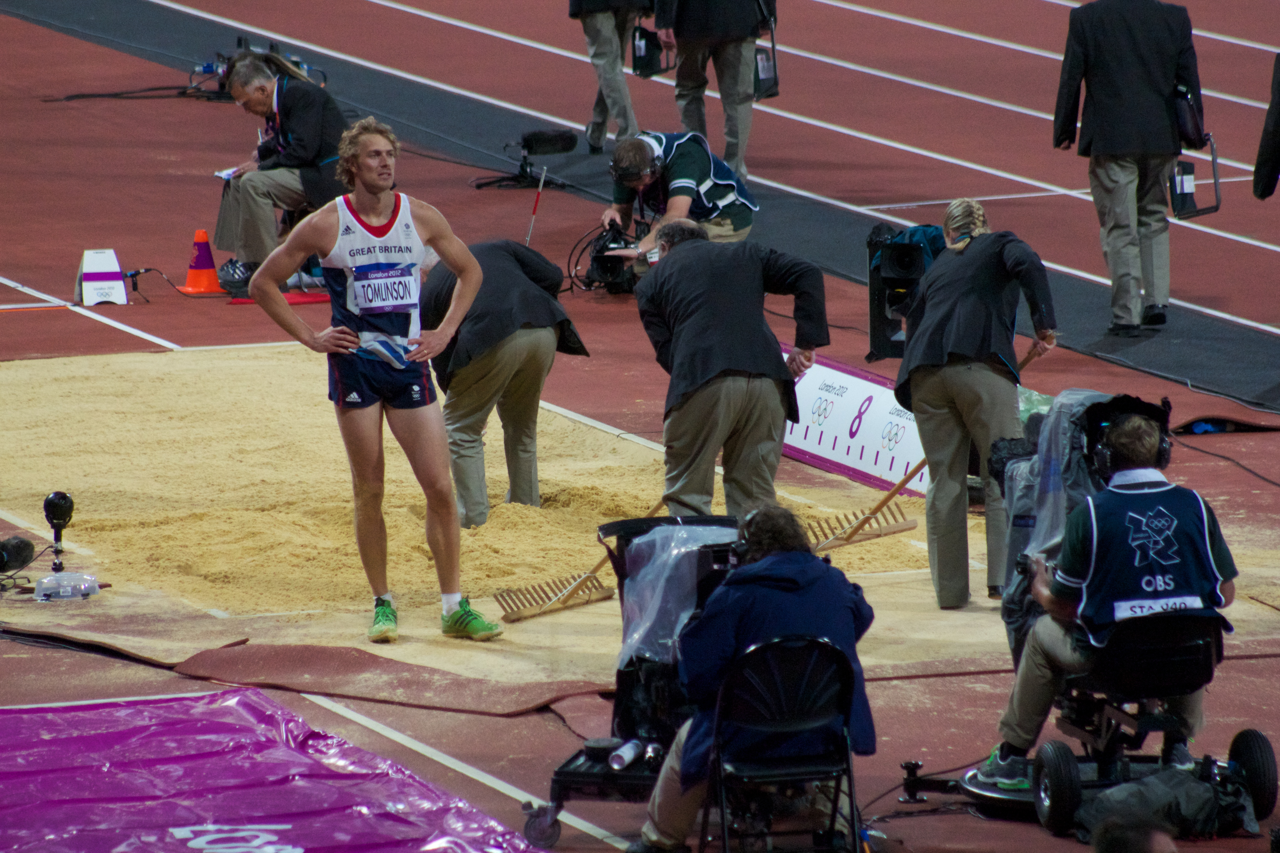 Men's Long Jump Final - Chris Thomlinson